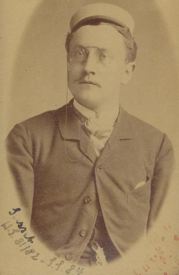 Oswald Susset